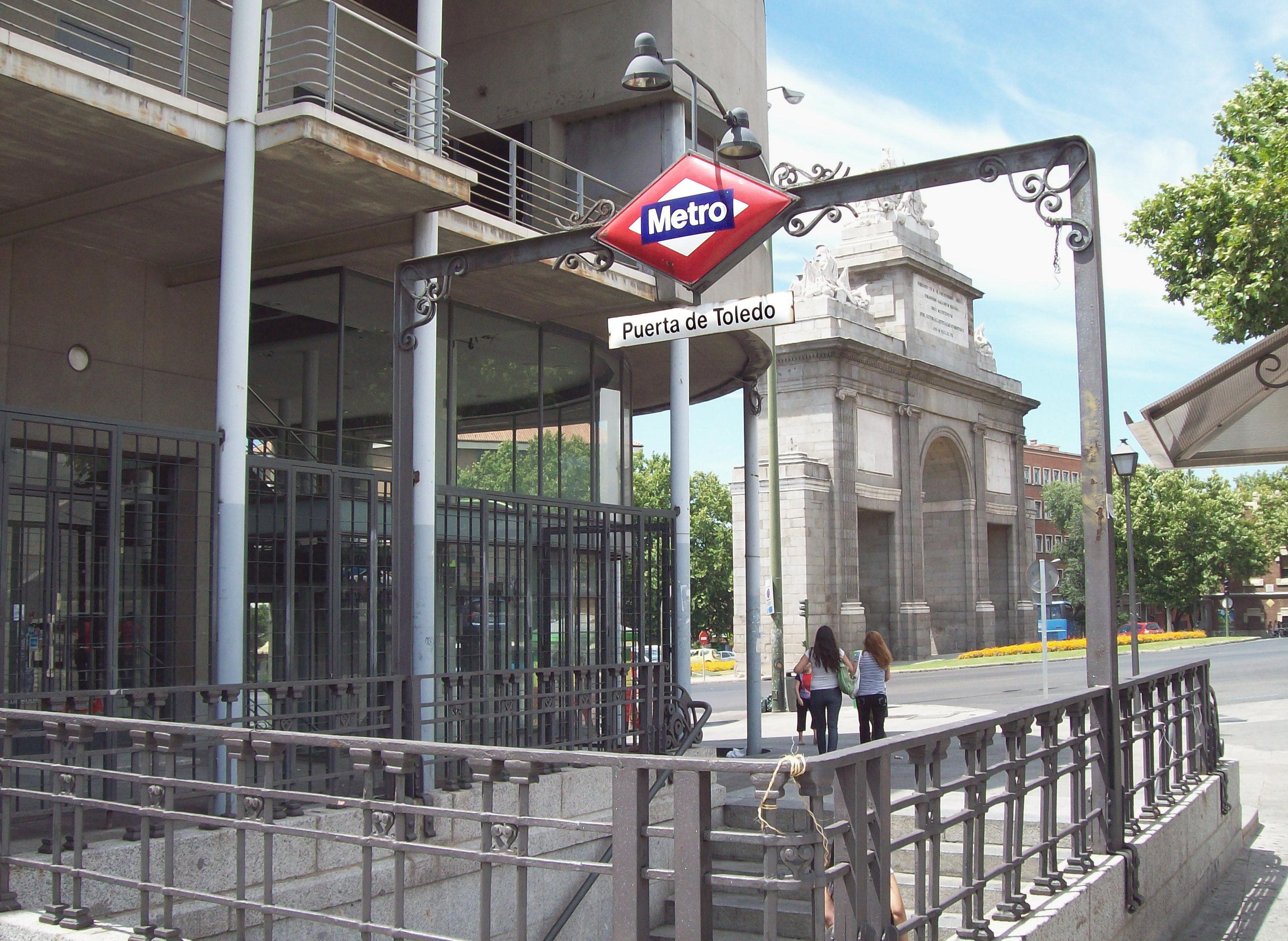 Entrance of Puerta de Toledo metro station in Centro district in Madrid (Spain). Background: Puerta de Toledo.